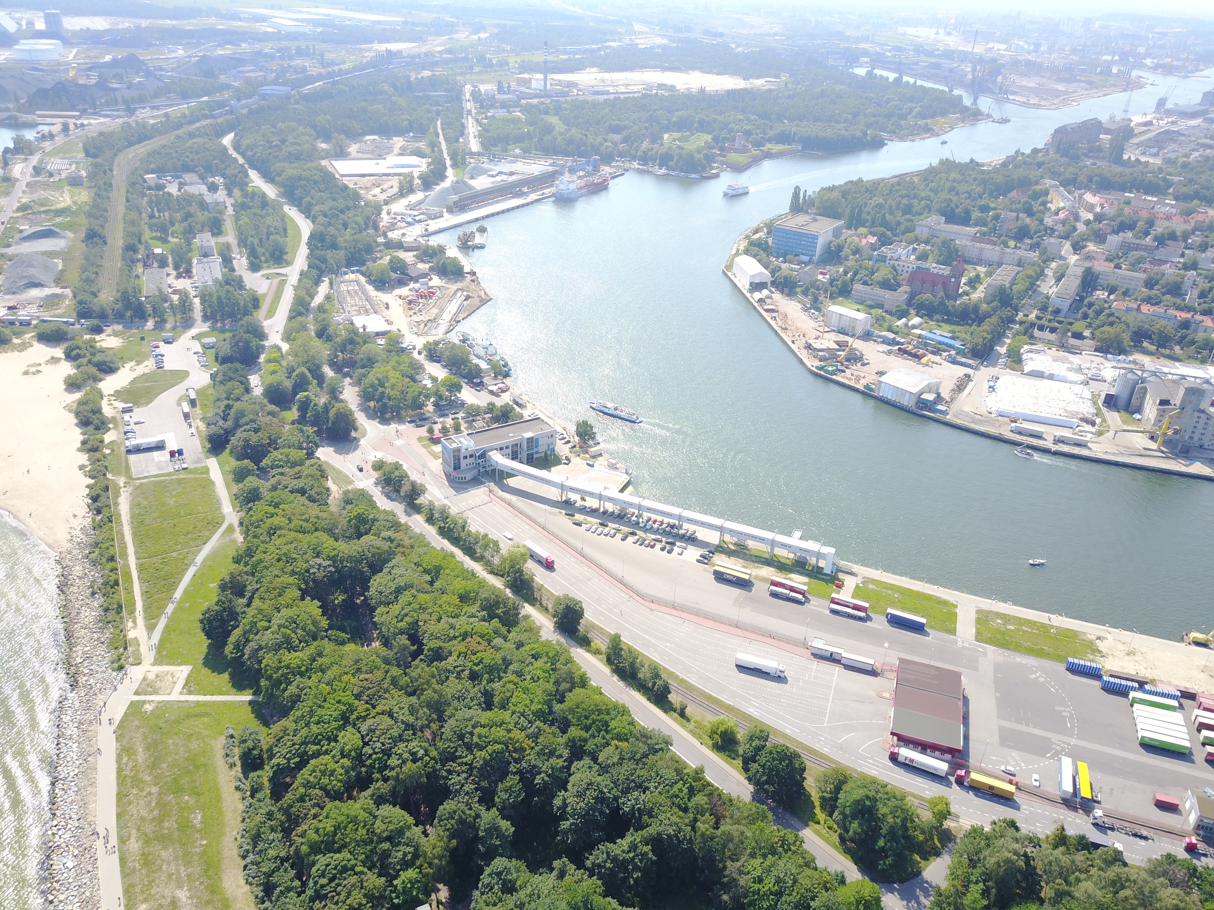 Zakręt Pięciu Gwizdków, Nowy Port and Westerplatte aerial view